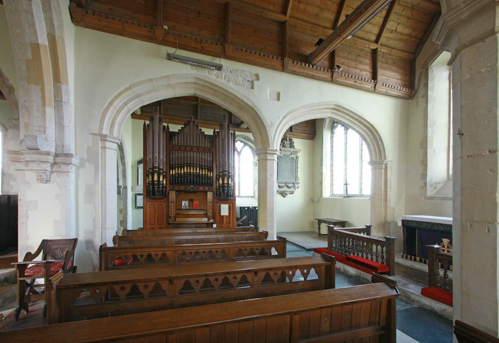 St James, Elmsted, Kent - Organ